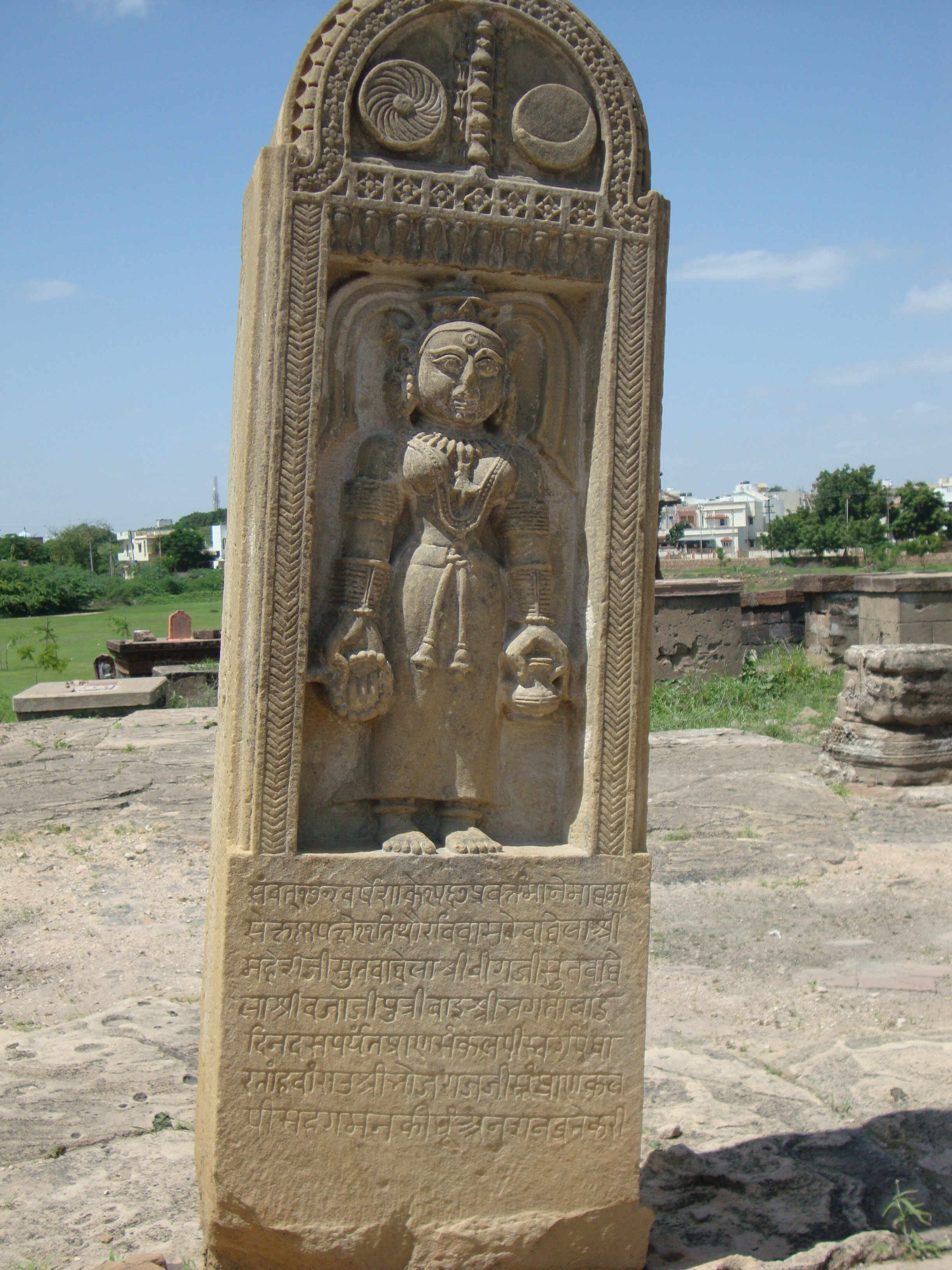 Samadhi near chatri7